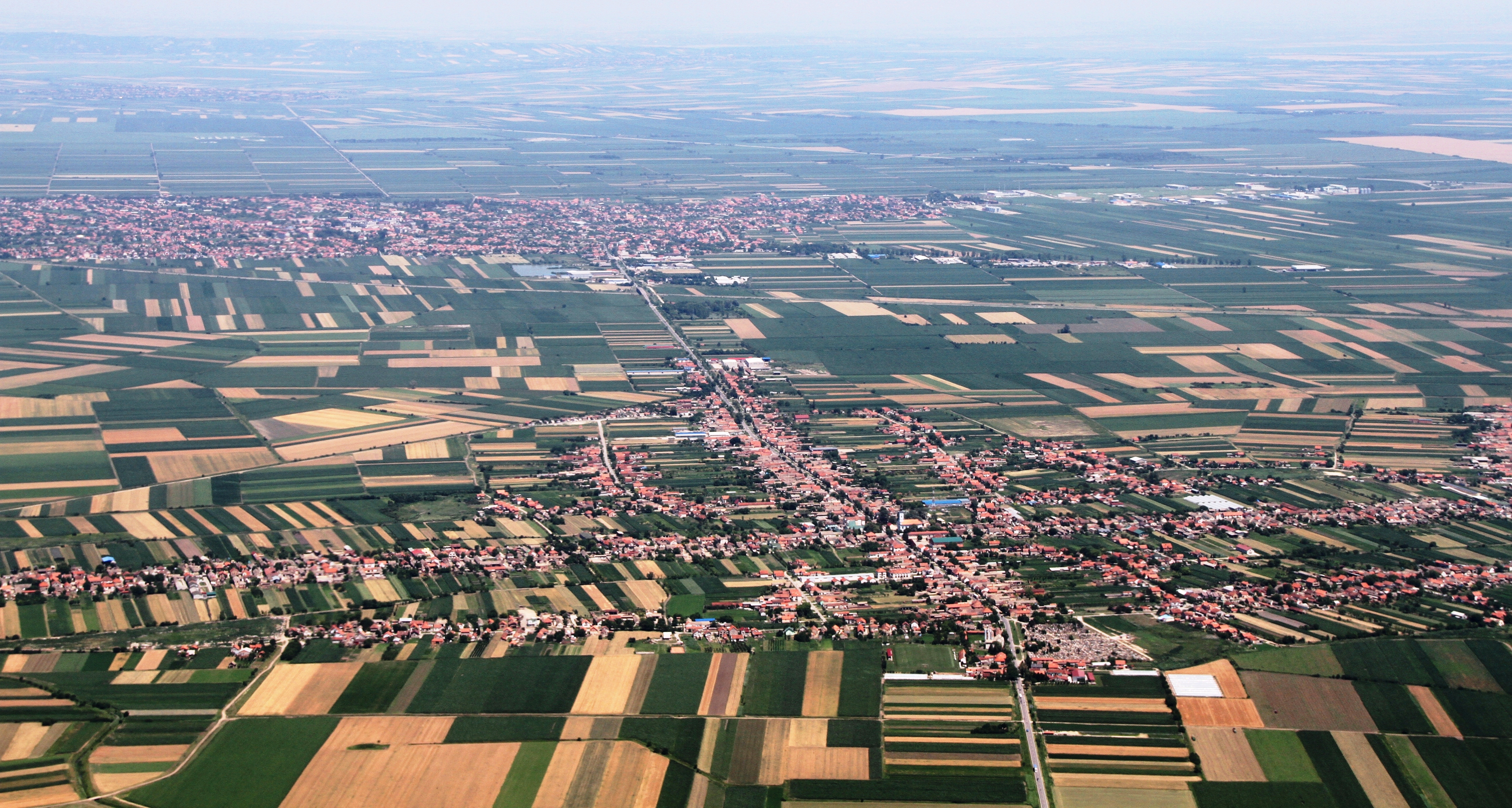 Aerial view from the west toward east, of Stara Pazova municipality, Vojvodina (northern Serbia)